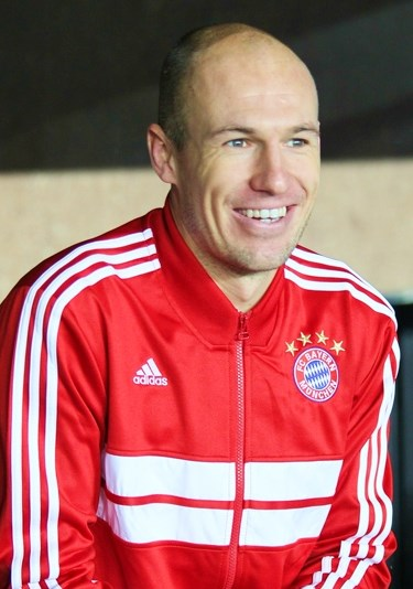 Arjen Robben 2013